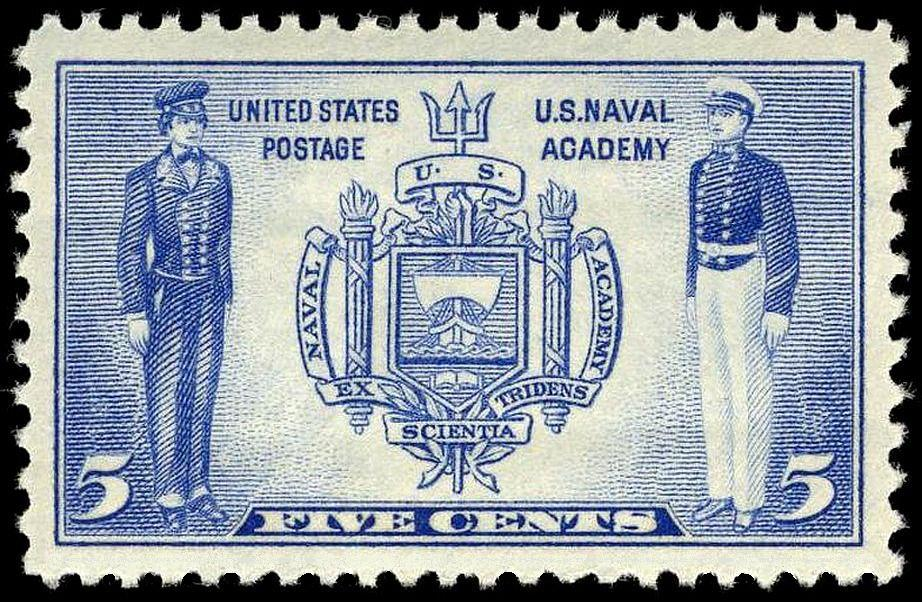 5-cent U.S. Naval Academy commemoration in the 1936-7 Navy Issue series.